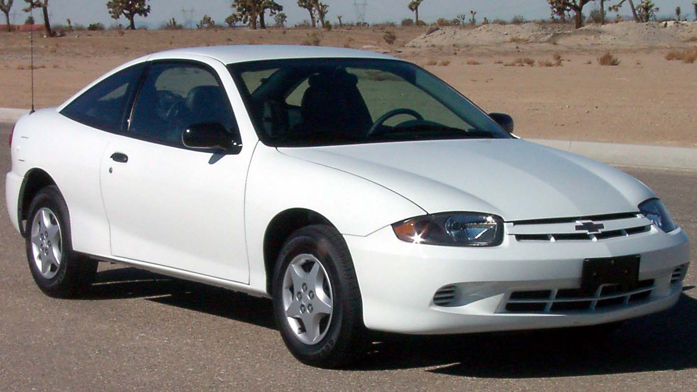 2003 Chevrolet Cavalier LS photographed in USA.